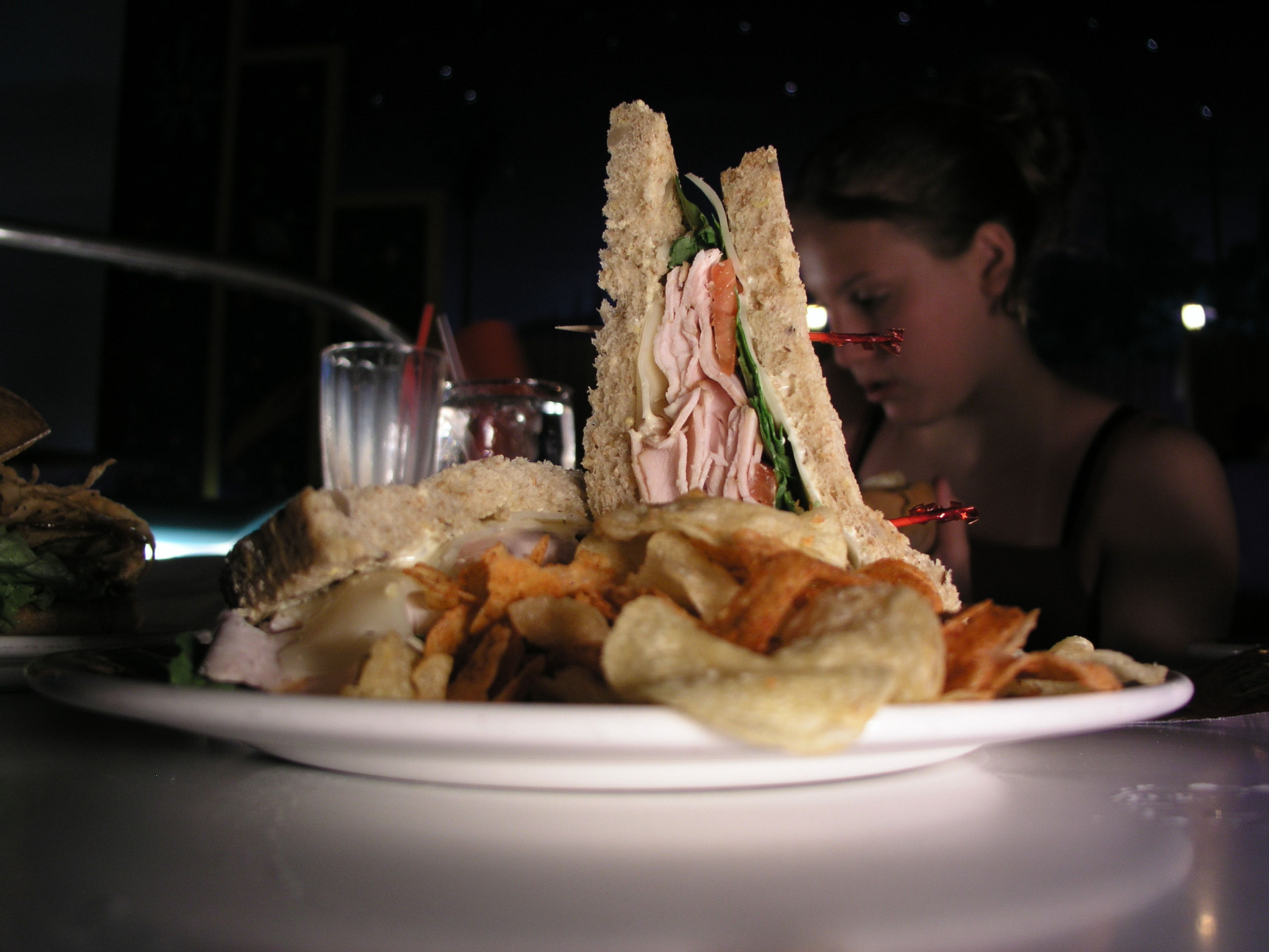 A club sandwich and chips at the Sci-Fi Dine-In Theater Restaurant